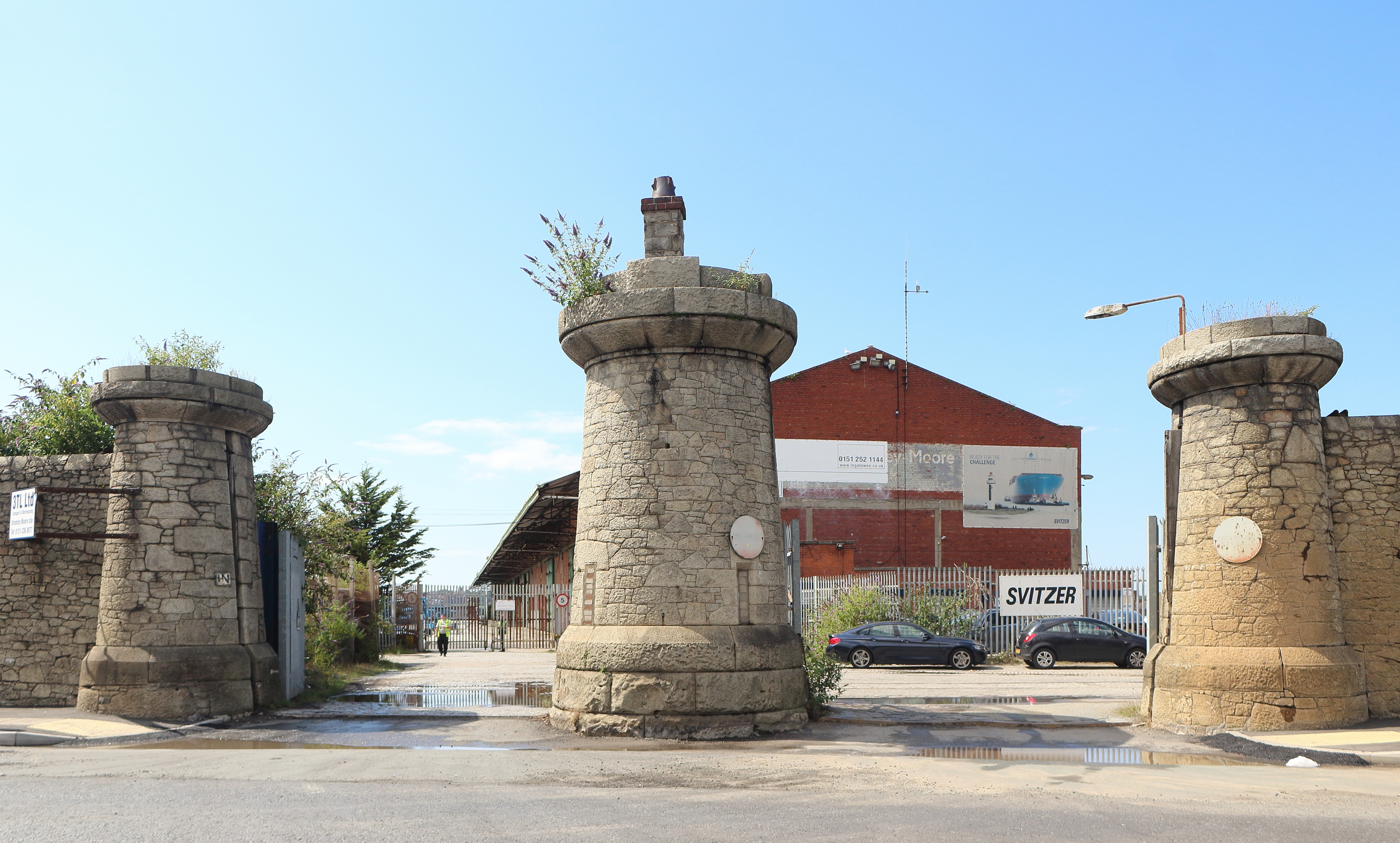 The gates at the entrance to Bramley Moore Dock, Regent Road, Liverpool. The central building was a police box and has a chimney for his fire.